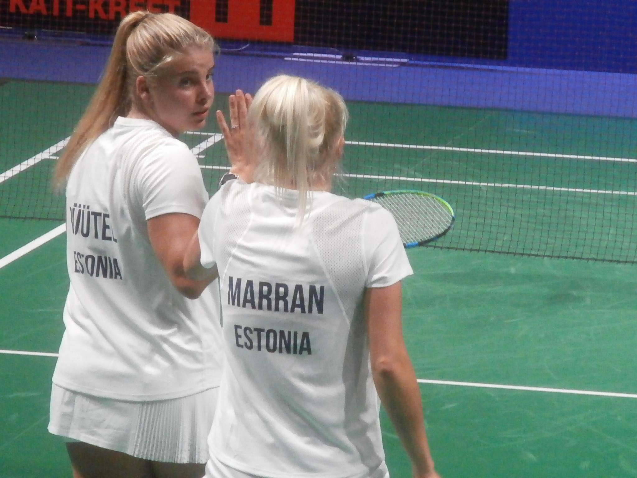 Helina Rüütel and Kati-Kreet Marran in Falcon Club in Minsk 27 June 2019